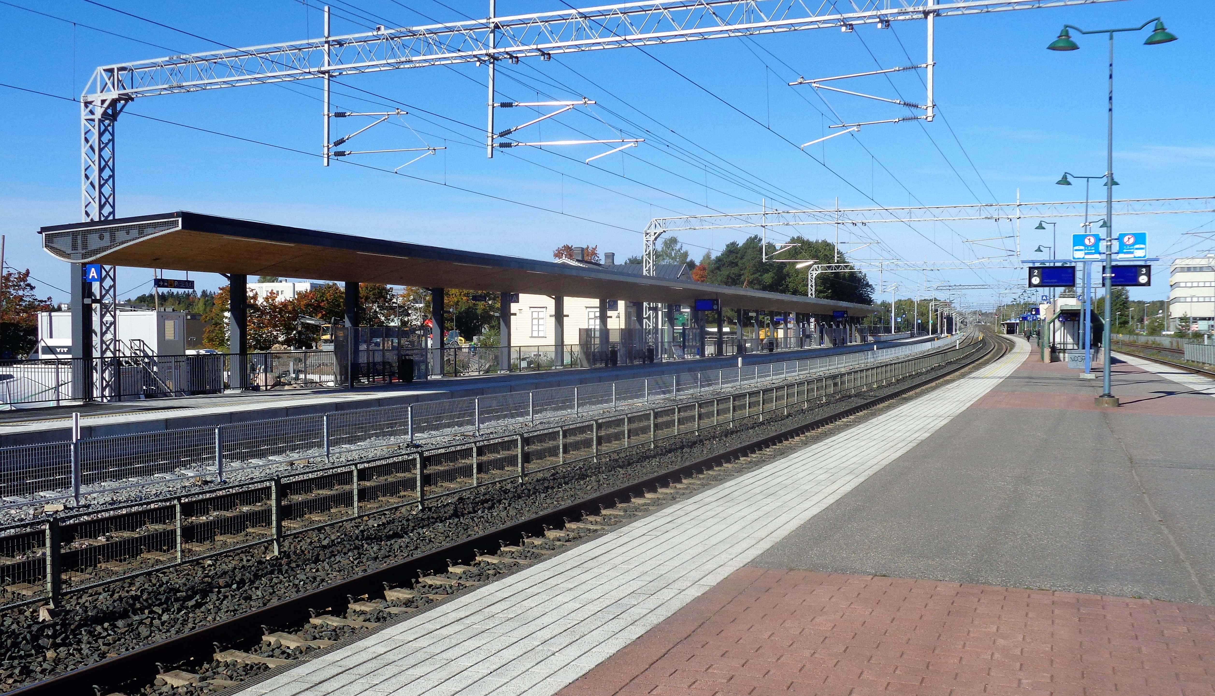 Järvenpää railway station two days before opening of the new track and platform, September 2018.